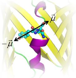 Gfp dipol